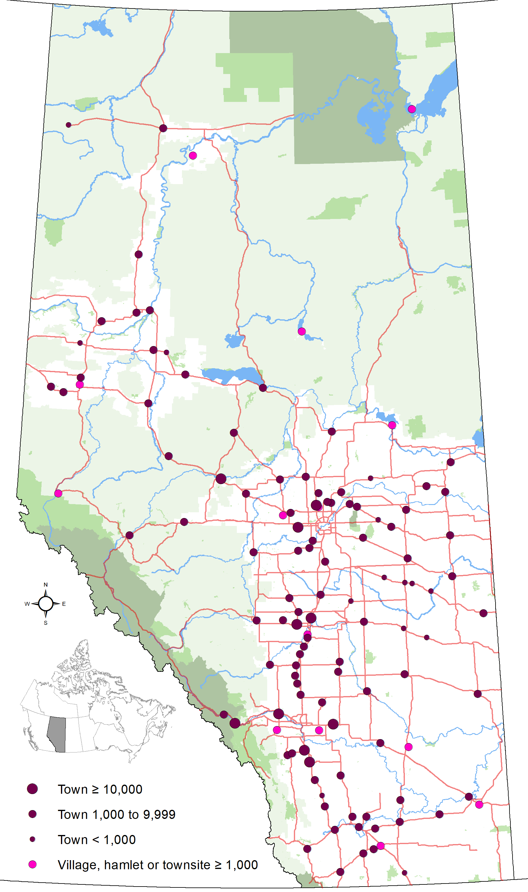 Map showing locations of Alberta's 108 towns and town-equivalents (two villages, a townsite and nine hamlets with populations of 1,000 or greater) as of May 2013, with base reference features (major lakes and rivers, provincial 1-216 highway series, national parks, provincial protected areas and green and white areas).